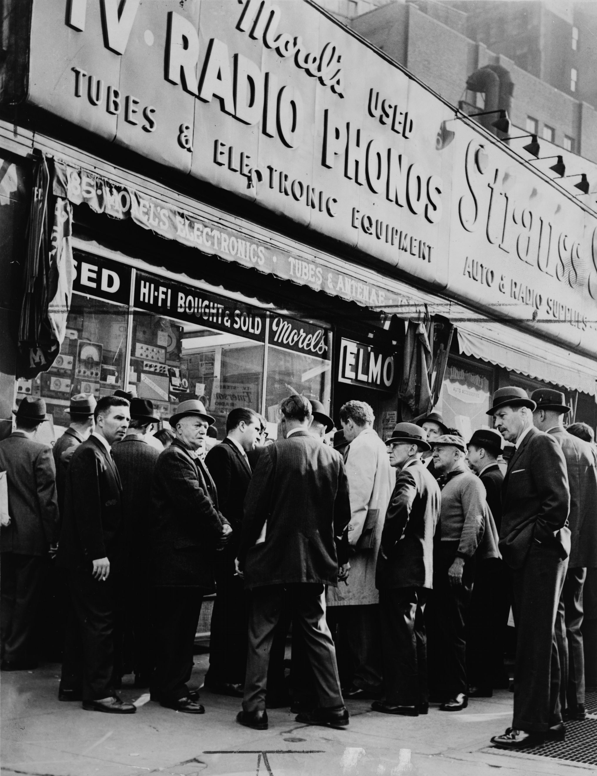 Crowd listens outside radio shop at Greenwich and Dey Sts. for news on President Kennedy / World Telegram & Sun photo by O. Fernandez.